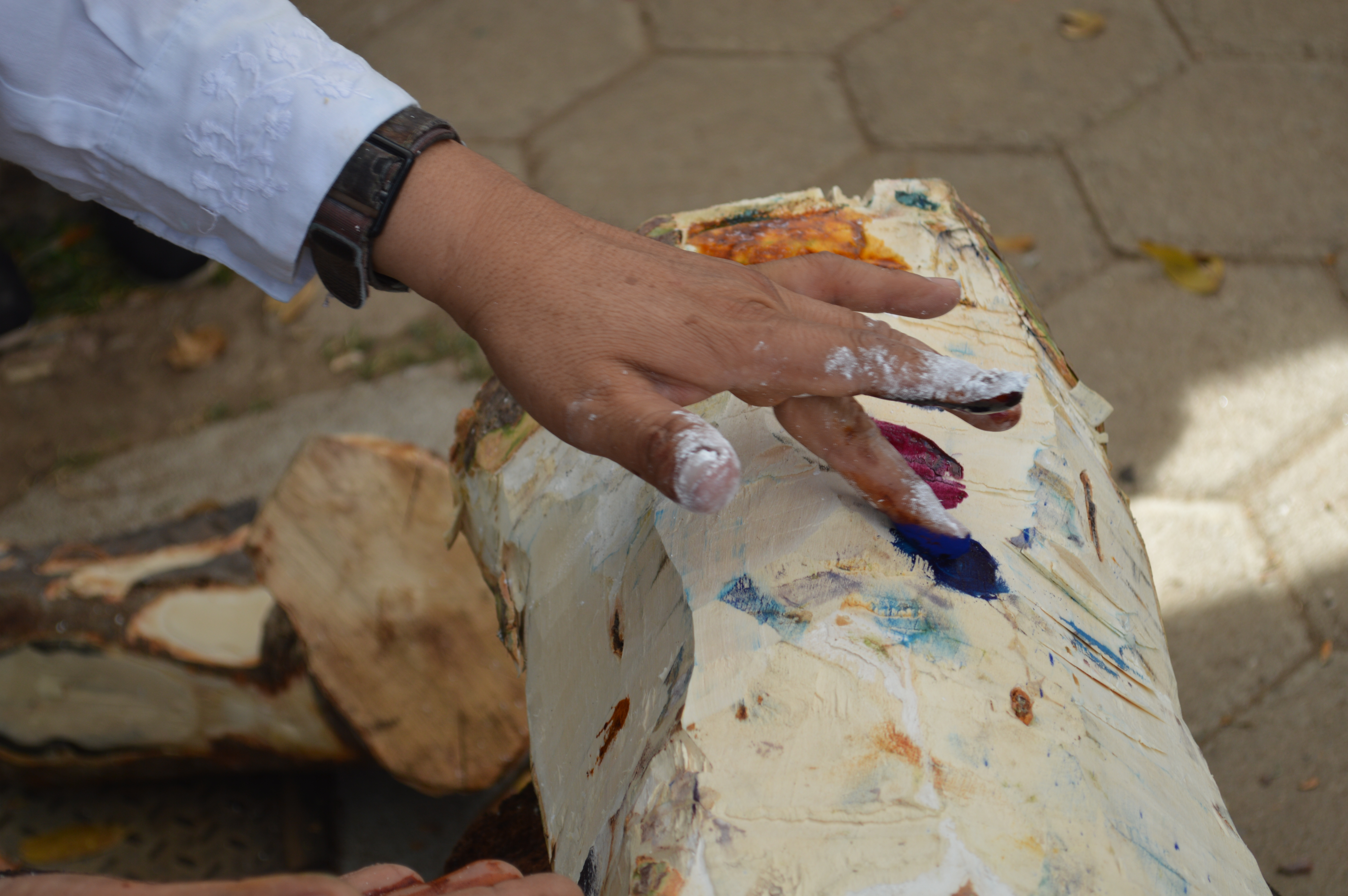 Jacobo Angeles demonstrating the making and use of paints from natural pigments at his workshop in San Martin Tilcajete, Oaxaca